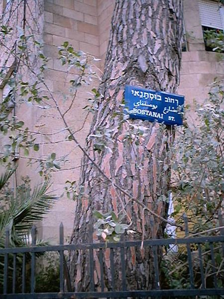 West Jerusalem - EMEK REFA'IM - BUSTENAI street